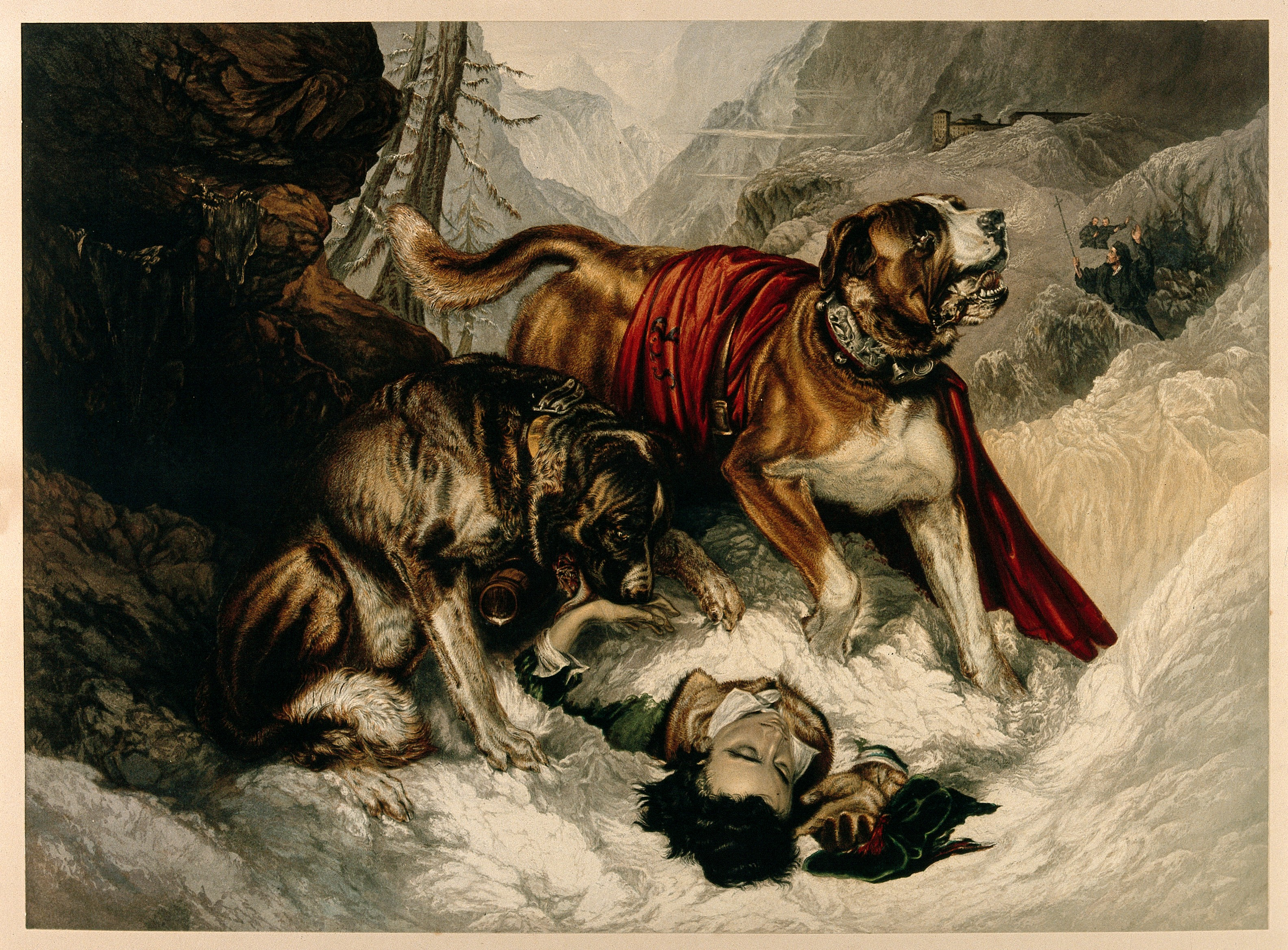 Two St. Bernard dogs find an injured man, while one tries to revive him the other alerts the rescue party of his presence. Coloured chromolithograph after E. Landseer. Iconographic Collections Keywords: Edwin Henry Landseer